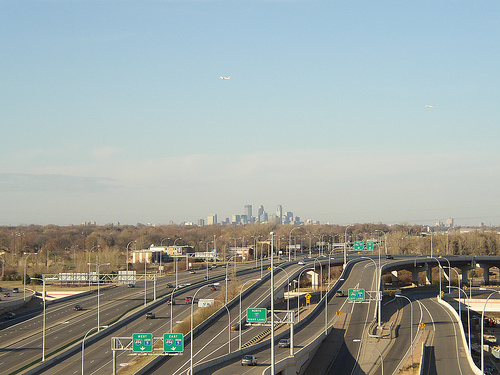 Highways near Minneapolis, Minnesota (USA).